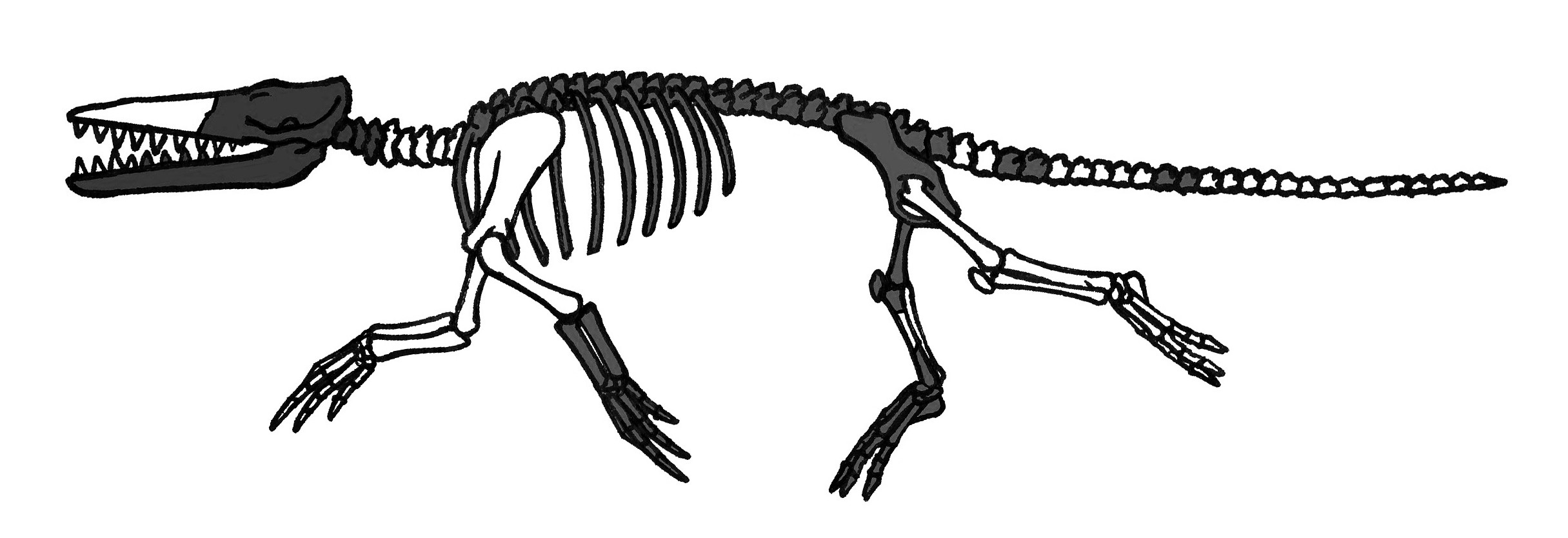 Diagram showing what has been found of the extinct crocodilelike mammal Ambulocetus natans ( "Walking whale which swim" ) from Pakistan. A picture of the original skeleton can be found at [1]. Note that this illustration may be a bit wrong in the body shape. The legs may have been a bit shorter, and the body a bit longer. To see a more accurate shape, look at the reconstructed skeleton here [2]. The most important thing, however, is to show what we know and don't know about this creature.